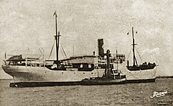 The ship La Martinière docked at Saint-Martin-de-Ré, France. Photo scanned from a postcard by FR Wikipedia user Pep.per.